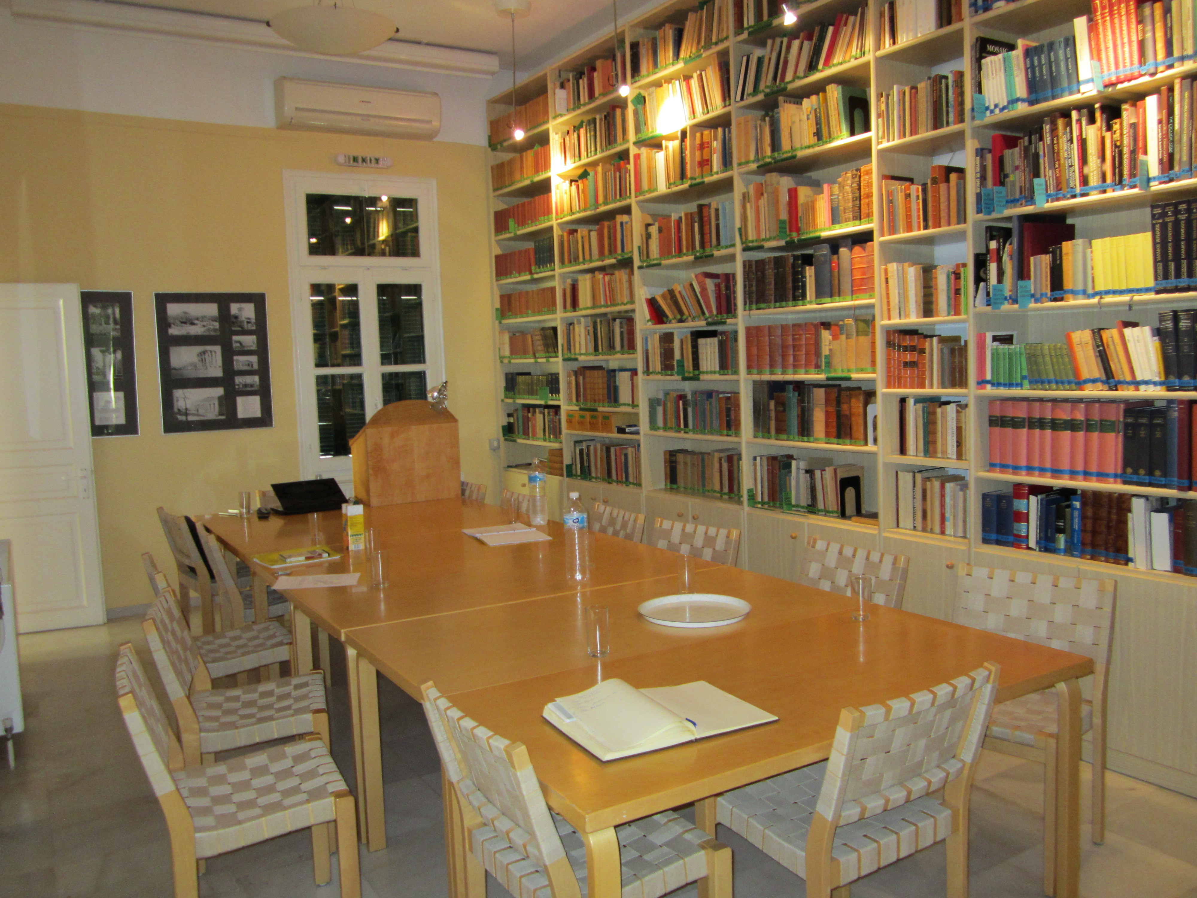 Finnish Institute at Athens. Lecture room and reference library.